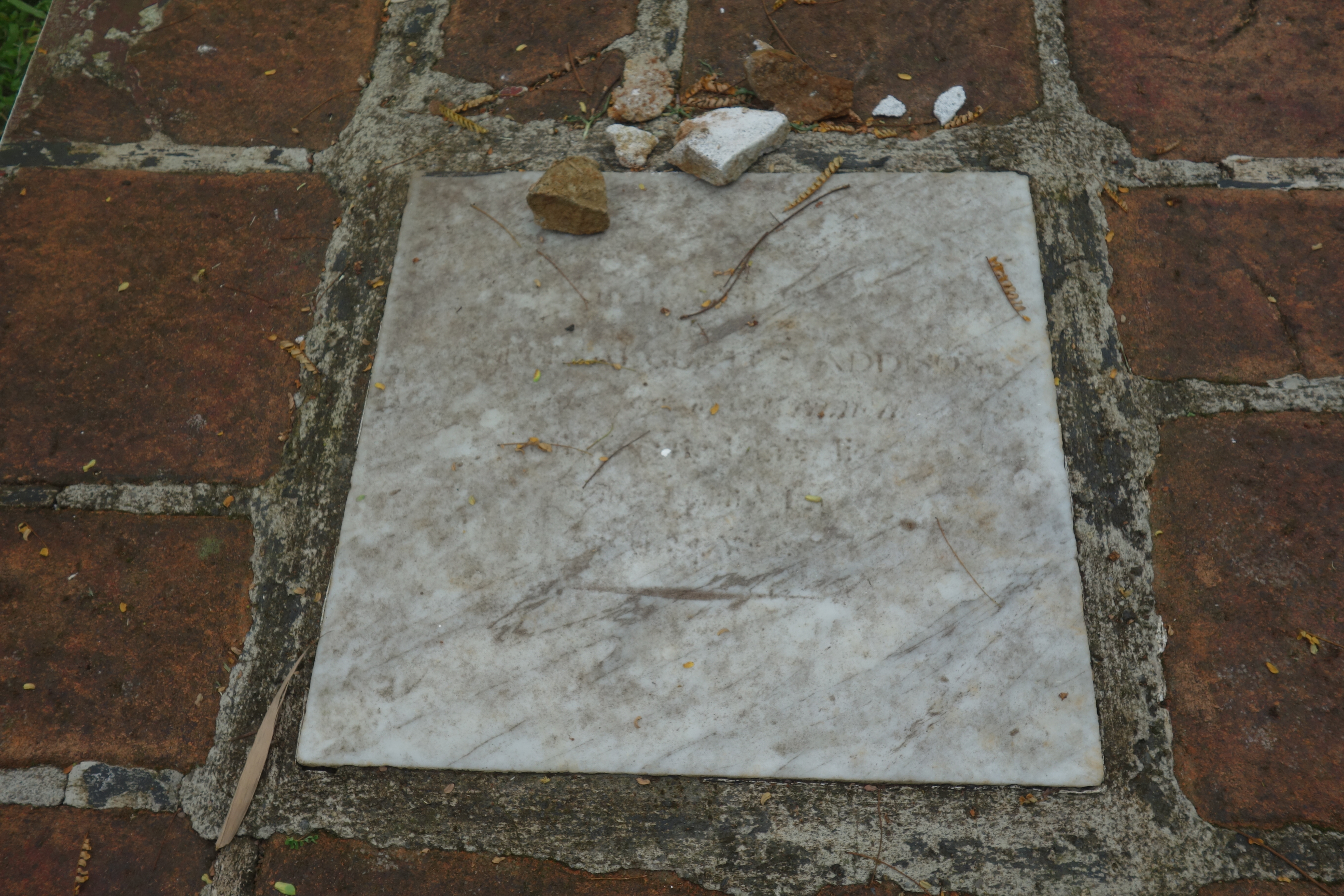 Old Dutch cemetery at Bogor Botanical Gardens (Java, Indonesia), 2018. Text reads: To the memory of / George Augustus Addison / asst. secretary to government / who departed his life / on the 14th Jan.y 1815 / aged 24 years.